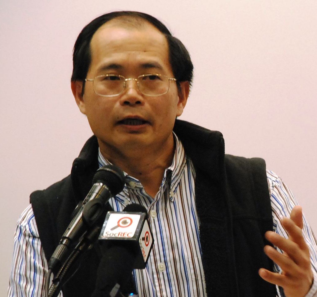 Chin Wan